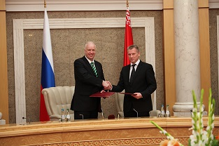 Валентин Шаев и Александр Бастрыкин